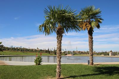 Parc d'Europa, Almacelles, Spain